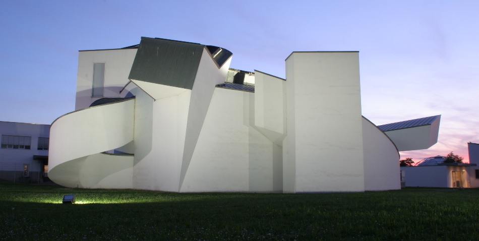 Vitra Design Museum building by Frank O. Gehry, Weil am Rhein, Germany. In the background, part of the factory building also by Gehry is visible.